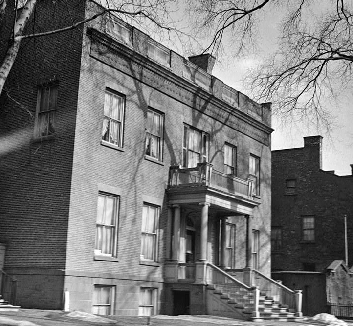 HABS photo of older of the Dr. Hun Houses, Albany, NY, USA, demolished 1972.